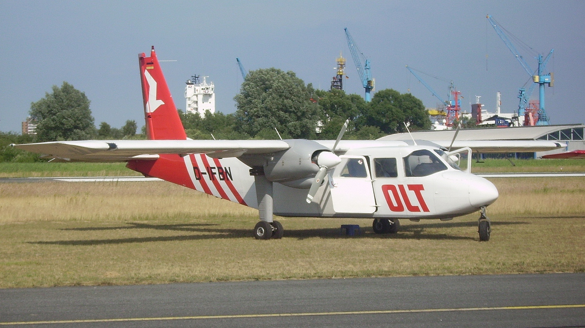 A Britten Norman BN-2 Islander of the German airline OLT